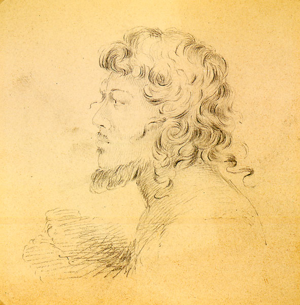 Inhabitant of Makin Island (technique: pencil)